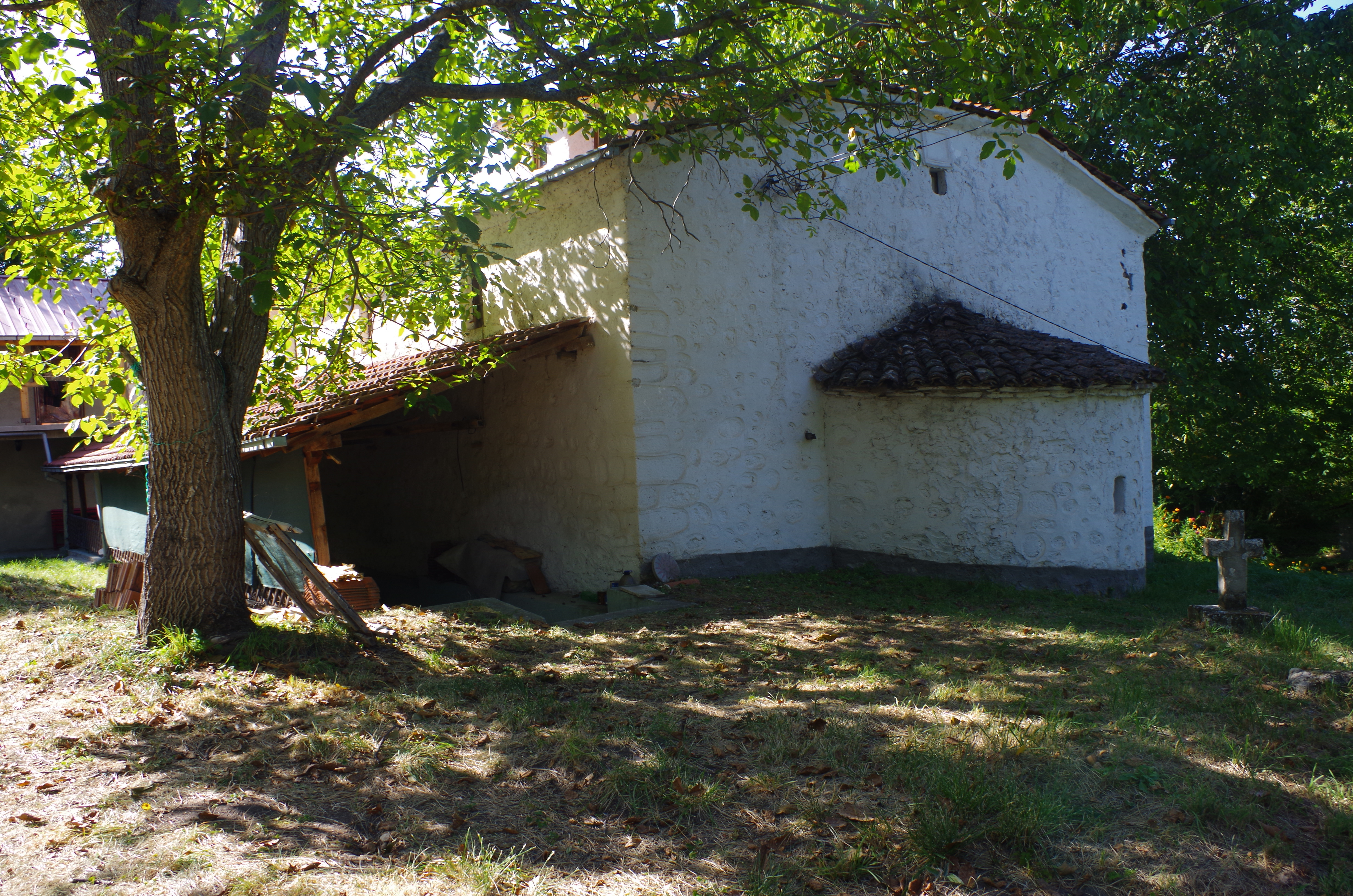 Church of the Ascension of Jesus of the Čemersko Monastery